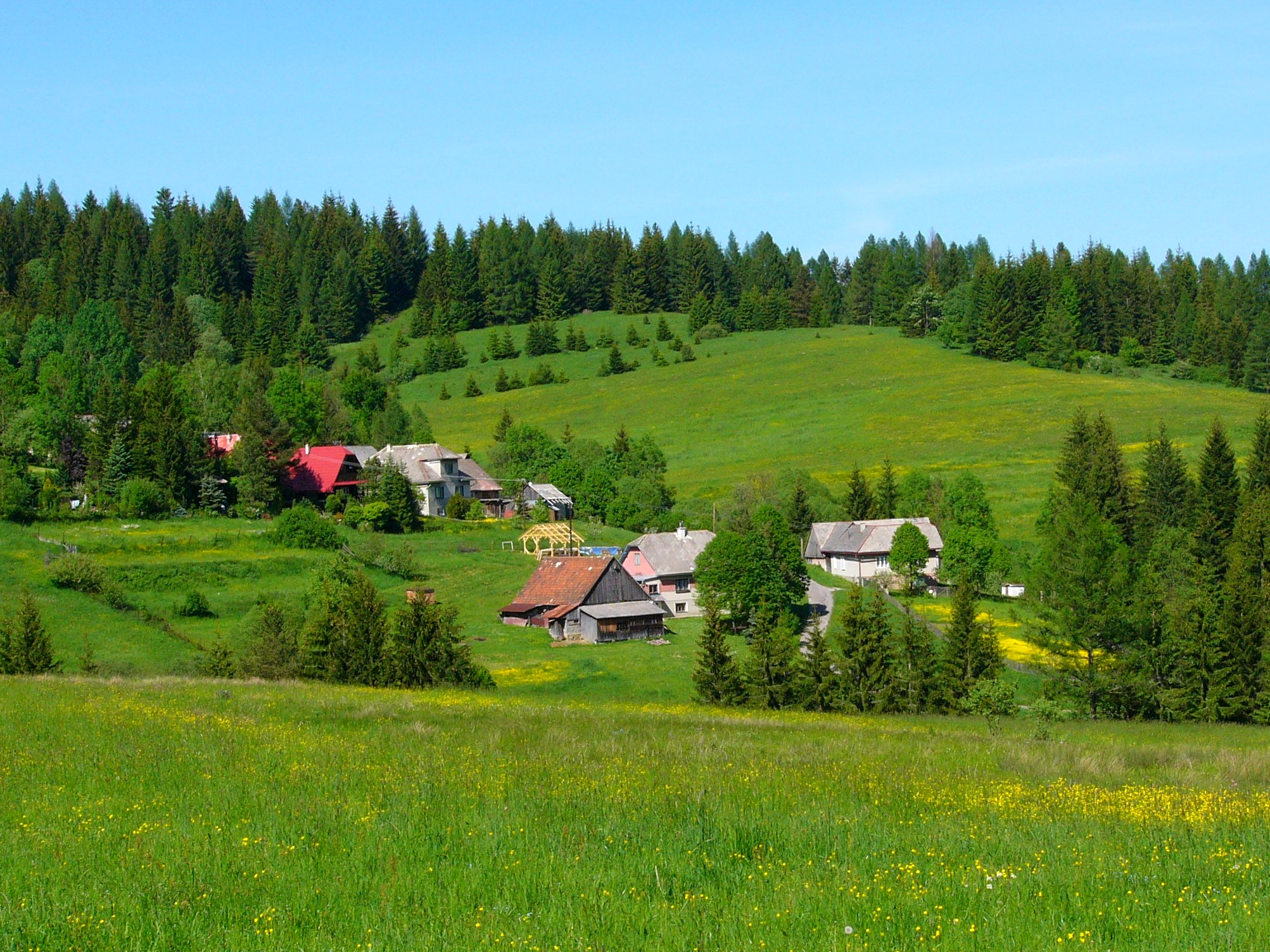 Veľké Borové – Jóbova ráztoka